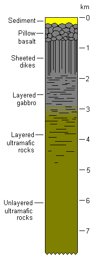 Cross-section of an ophiolite.